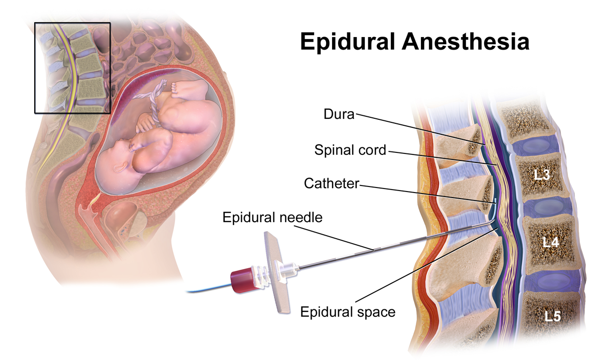 Epidural Anesthesia. See a full animation of this medical topic.